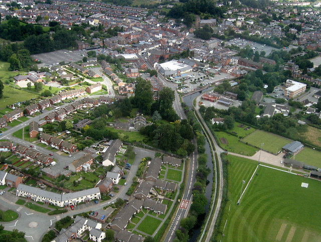 Welshpool and the A490 The Shropshire Union Canal can be seen right next to the main road. This picture was taken from a Cessna 172 on a pleasure flight from Welshpool airport.